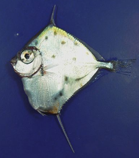 Spotted tinselfish (Xenolepidichthys dalgleishi)